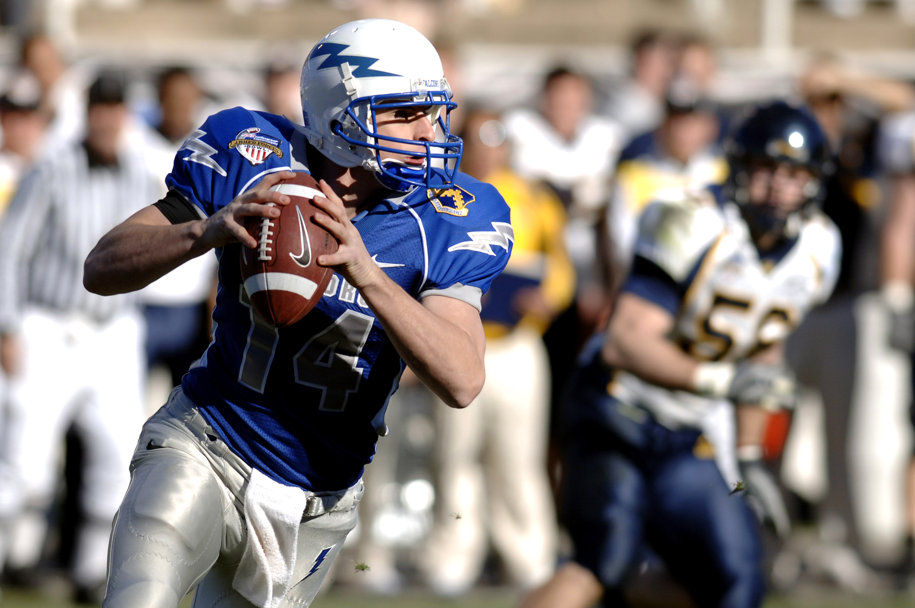 The Quarterback Shea Smith in the moment before passing.